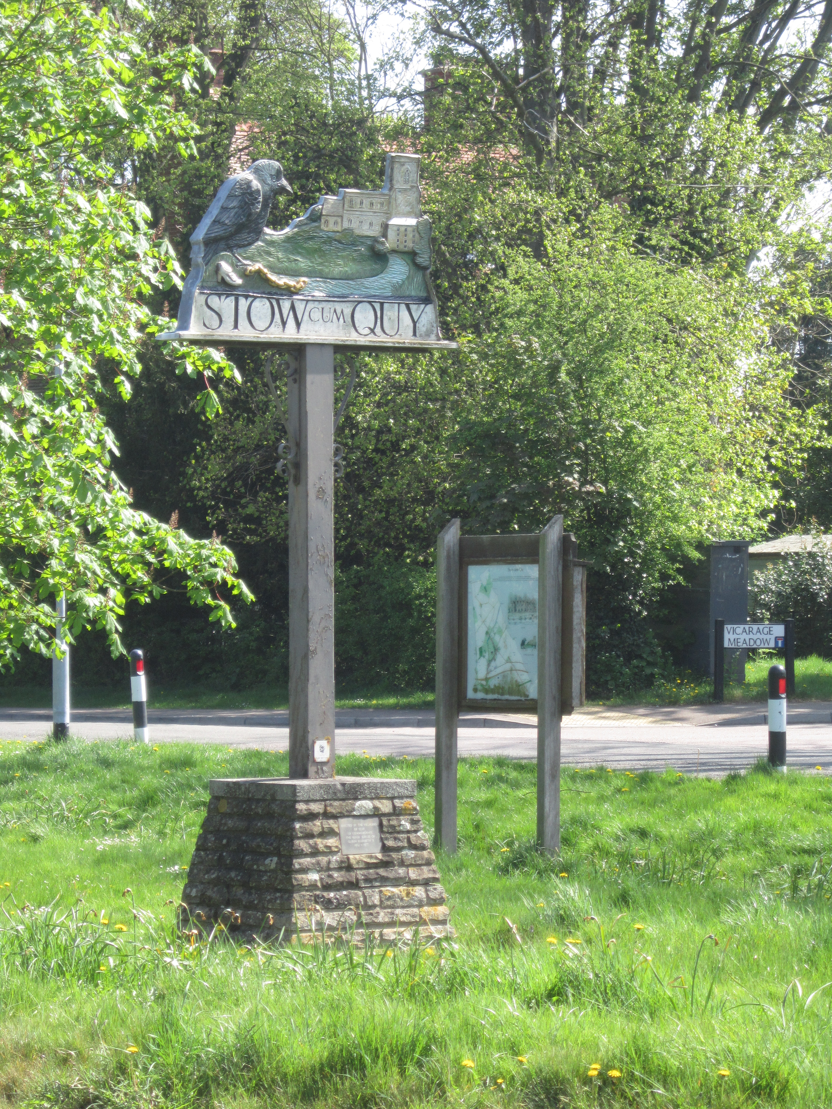 The village sign of Stow cum Quy, Cambridgeshire, England.